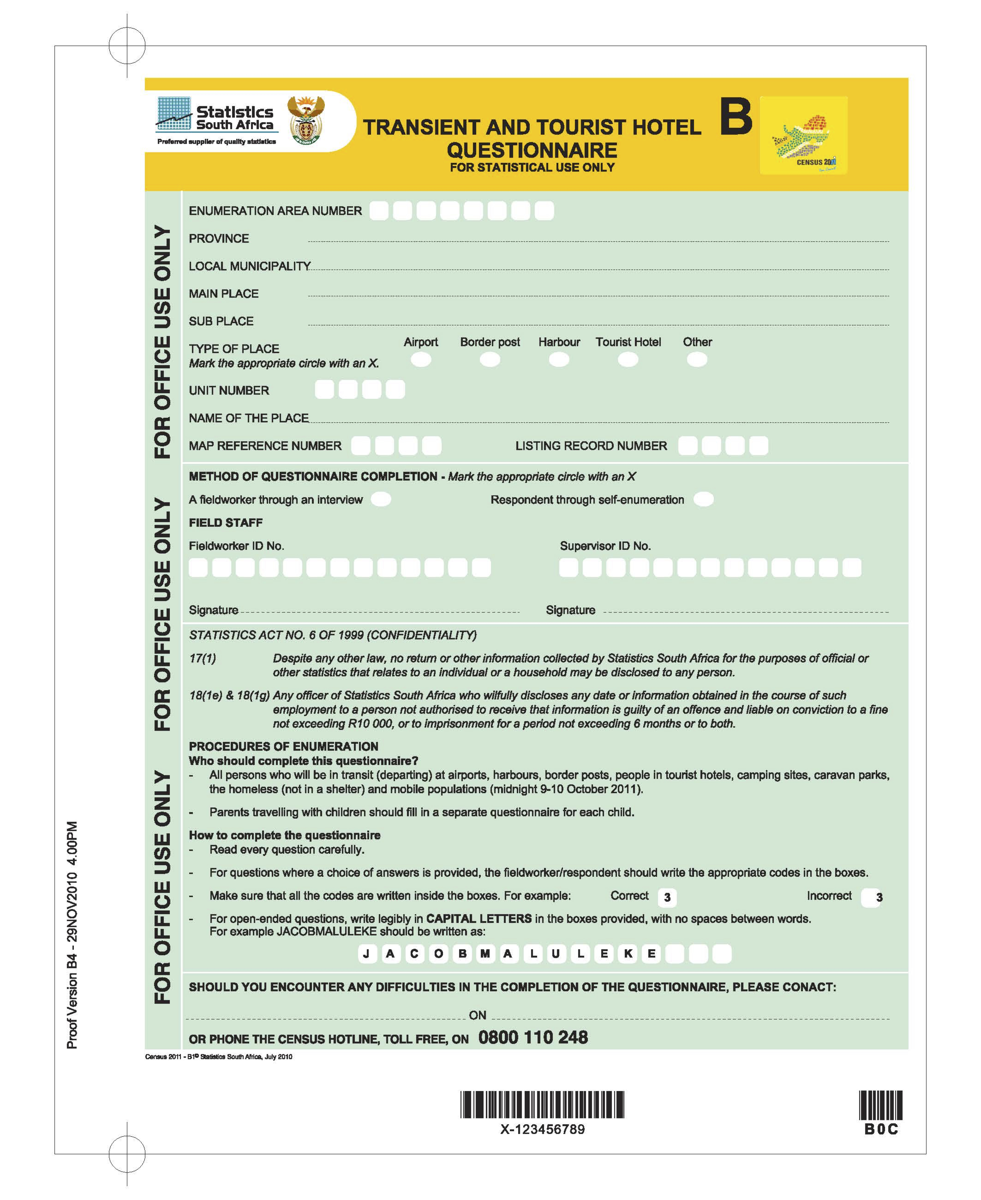 This is the cover page of the 2011 South African National Census for questionnaire B.